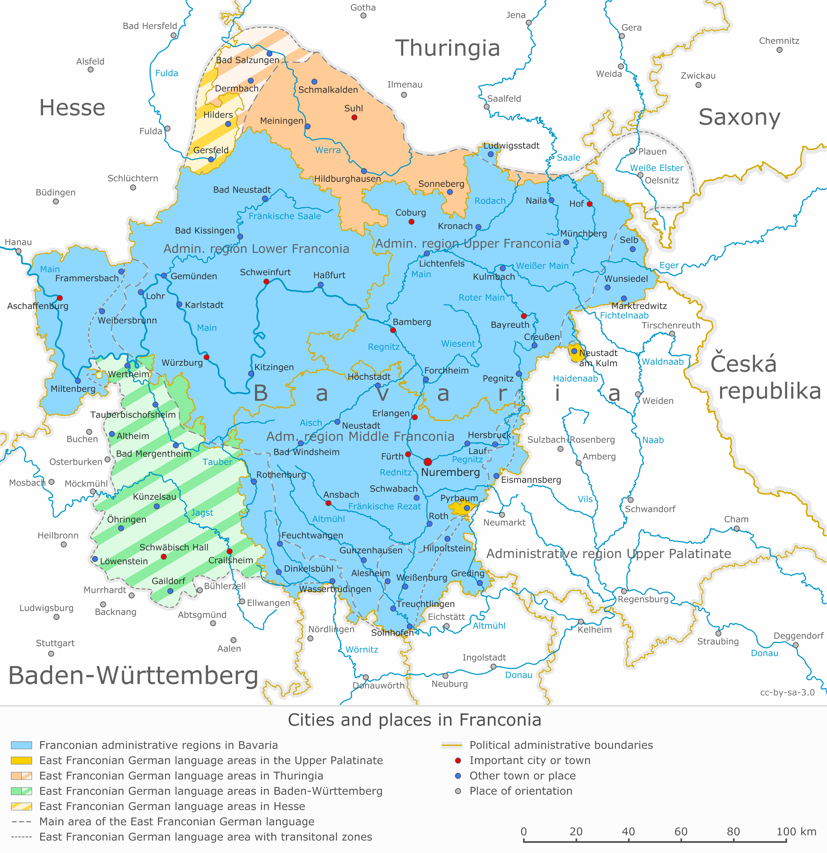 Cities and places in Franconia